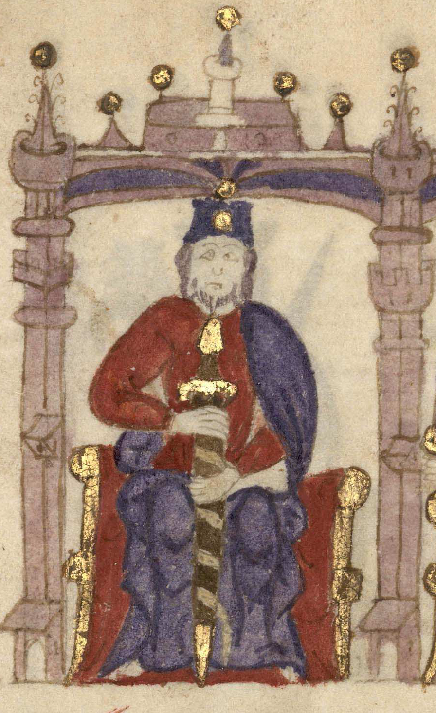 Henry of Burgundy, Count of Portugal.